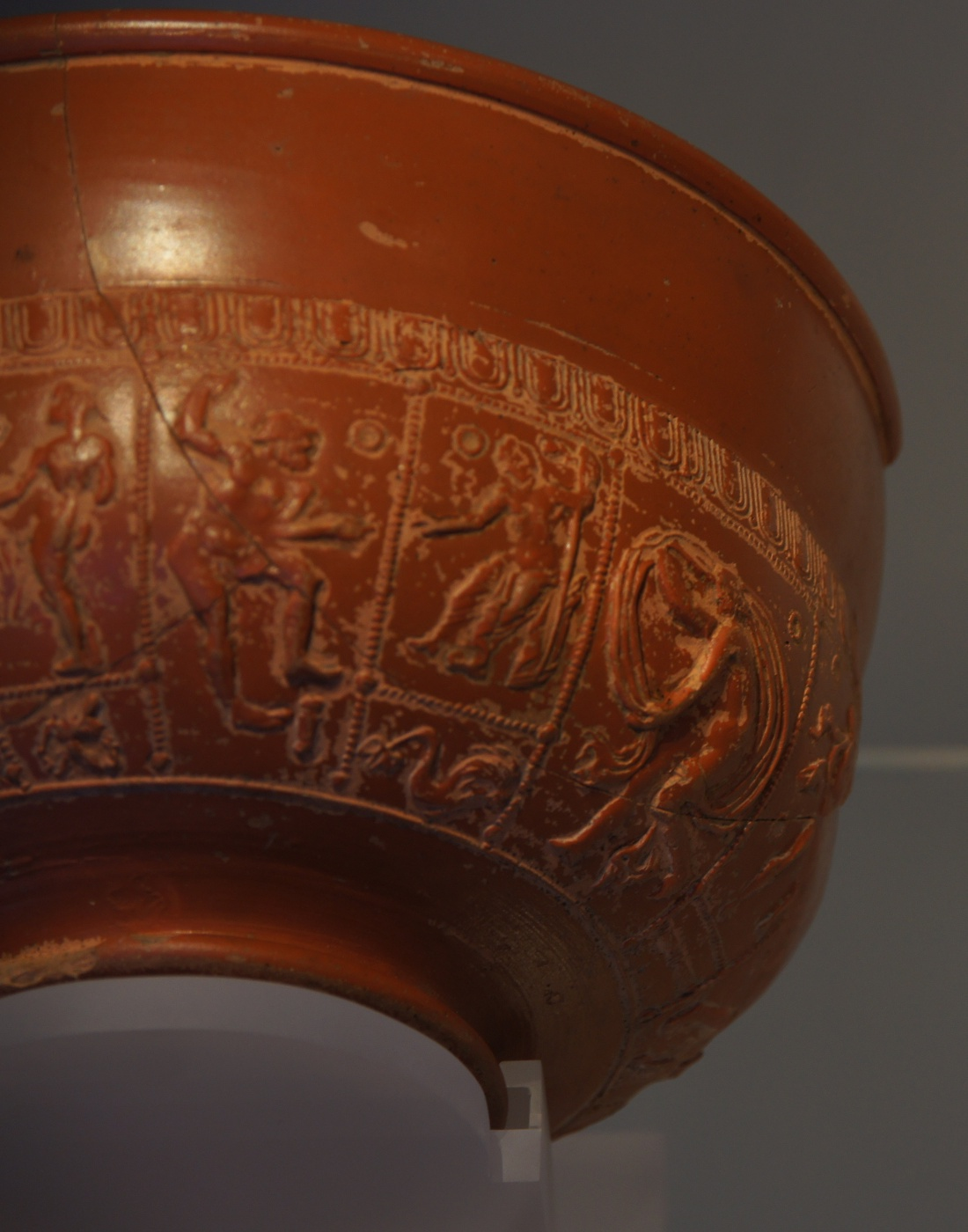 Samian Bowl from Inveresk. Museum of Scotland, Edinburgh